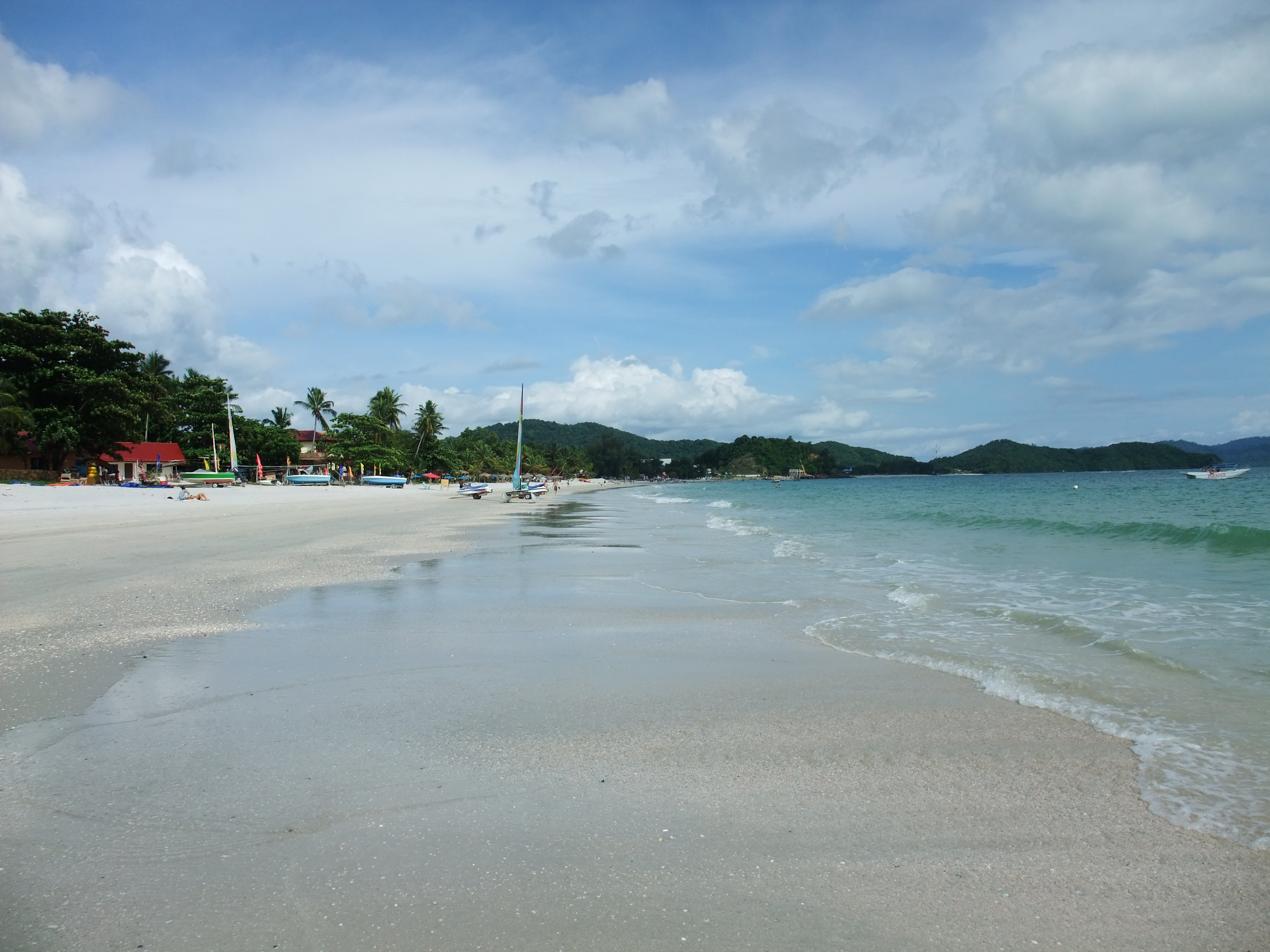 Pantai Cenang on Langkawi, Malaysia